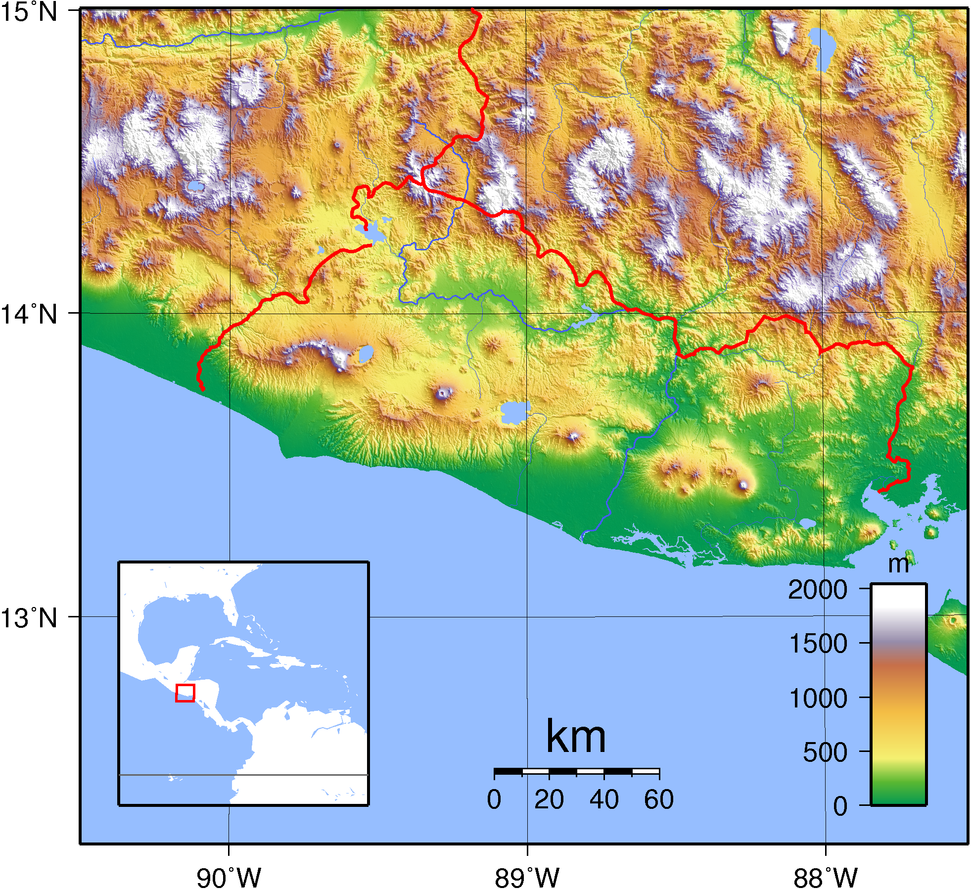 Topographic map of El Salvador. Created with GMT from SRTM data.